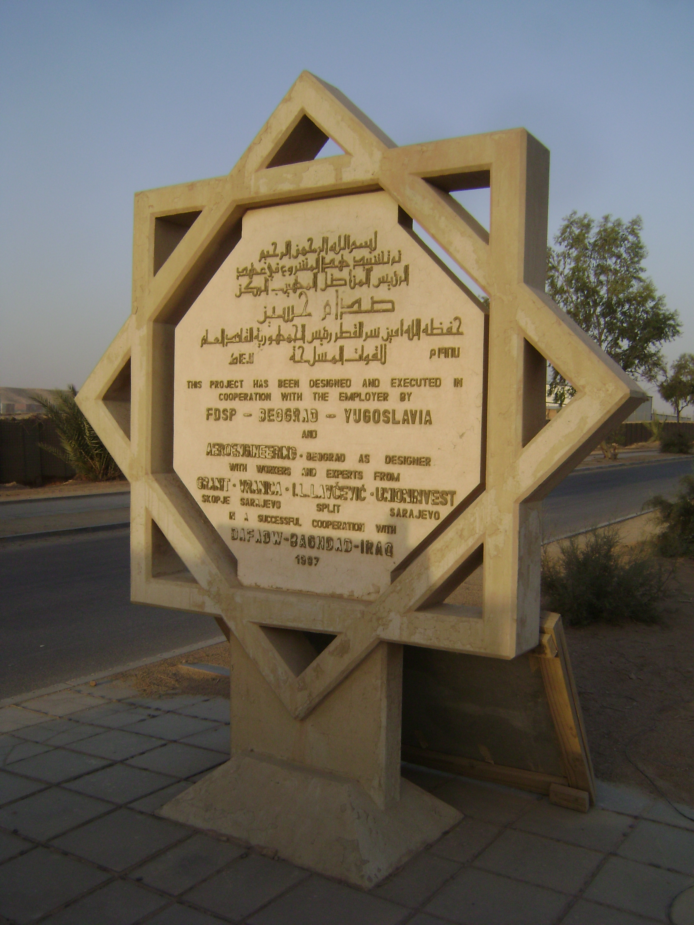 Sign is written in Arabic (please translate) and English. The English portion reads as follows: This project has been designed and executed in cooperation with the employer by FDSP - BEOGRAD - YUGOSLAVIA and AEROENGINEERING · Beograd as designer with workers and experts from GRANIT · VRANICA · I.L. LAVČECIĆ · UNIONINVEST Skopje · Sarajevo · Split · Sarajevo in a successful cooperation with DAFADW - BAGHDAD - IRAQ 1987